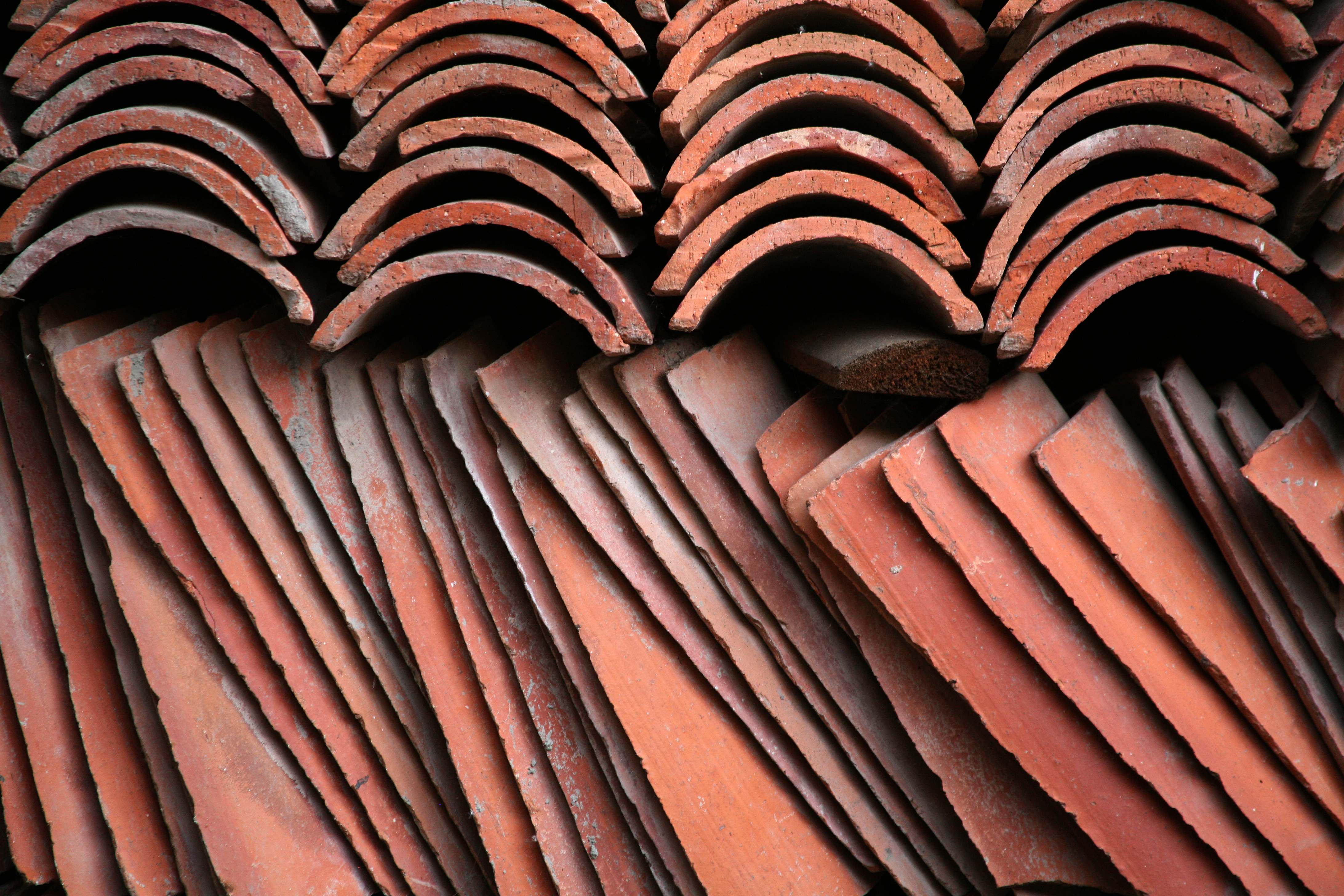 Clay tiles, an example of color, texture and rythm